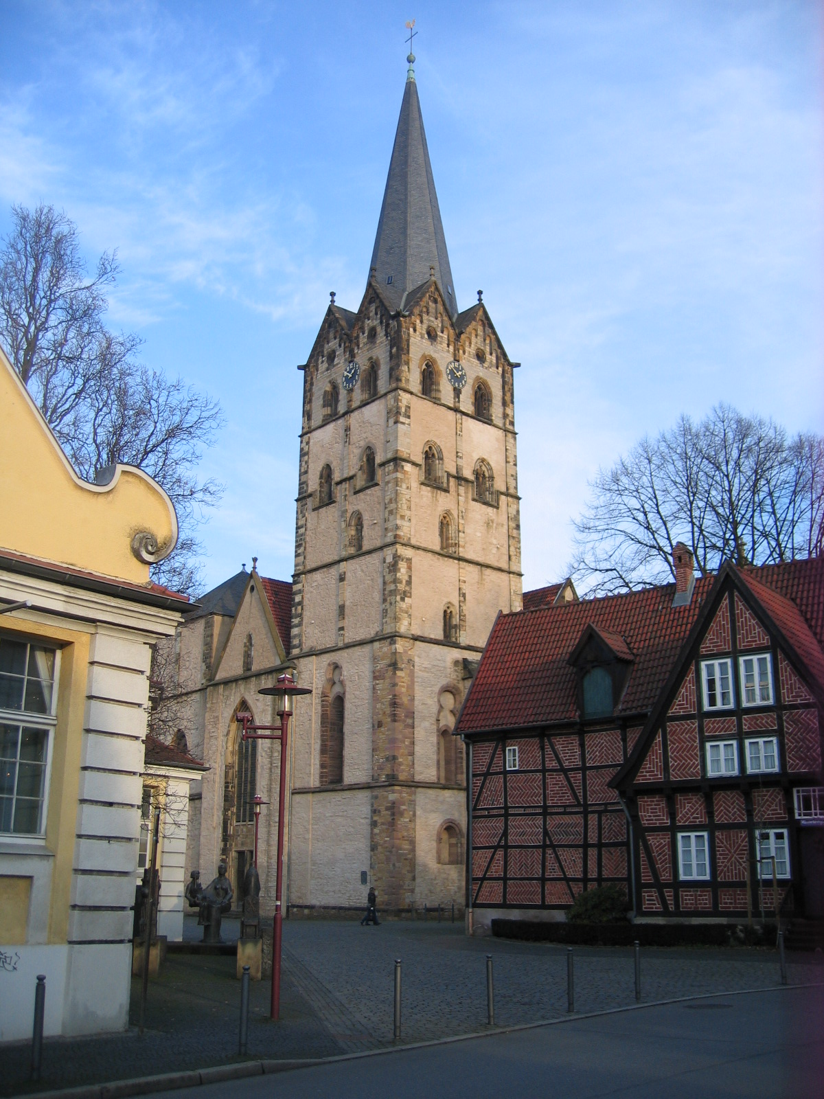 Tower of Herford minster in Herford, District of Herford, North Rhine-Westphalia, Germany.